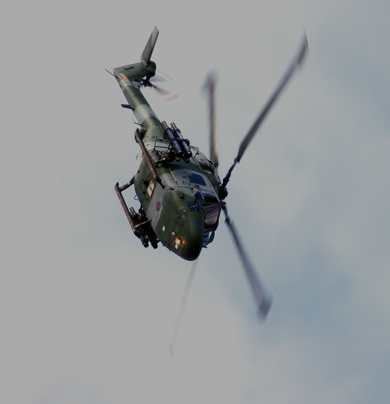 One of my better helicopter photos from the Yorkshire Air Show., a Lynx from the Army Air Corps Blue Eagles display team flown by Staff Sergeant Graham Wayman. Their flying was definitely better than my photography, man those guys are good!